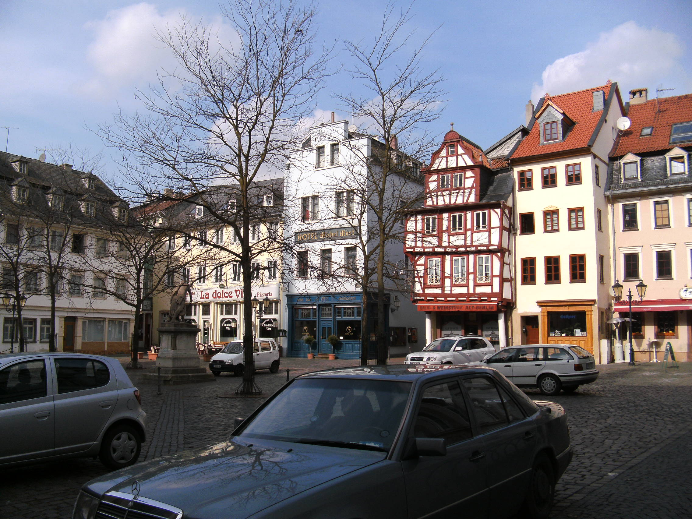 Eiermarkt in Bad Kreuznach